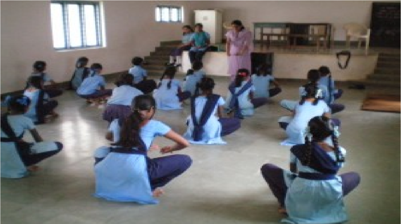 Singing Skylarks Volunteer Neha - teaching students of Govt School in KR Puram Area